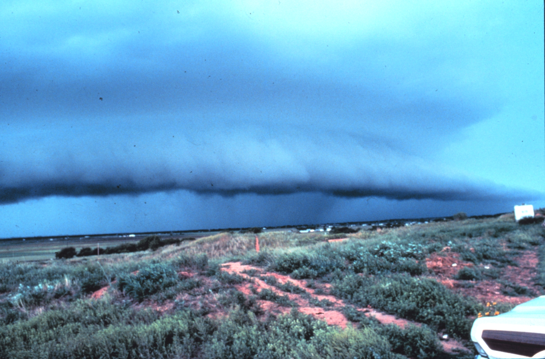 Description: Approaching thunderstorm with lead gust front. Rain-cooled air from the storm moves out ahead of the storm. It ploughs under the warm moist air forming a flat"shelf cloud." Image ID: nssl0045, National Severe Storms Laboratory (NSSL) Collection Location: Brookhaven, New Mexico Credit: NOAA Photo Library, NOAA Central Library; OAR/ERL/National Severe Storms Laboratory (NSSL)